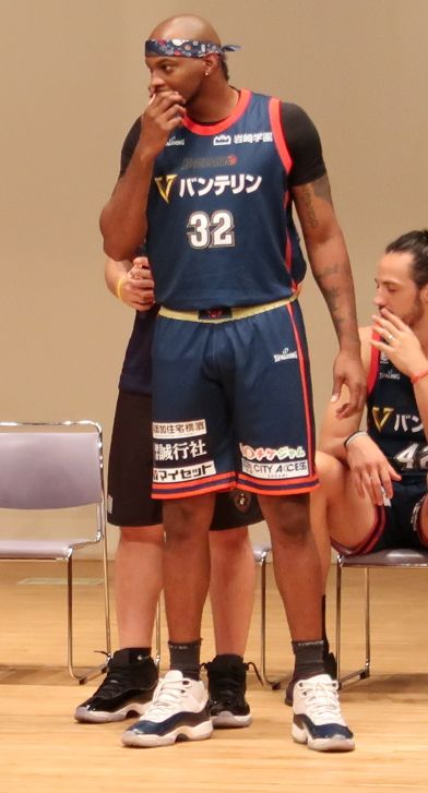 Yokohama B-Corsairs Japanese professional basketball team 2019-20 player 32 Edward Morris